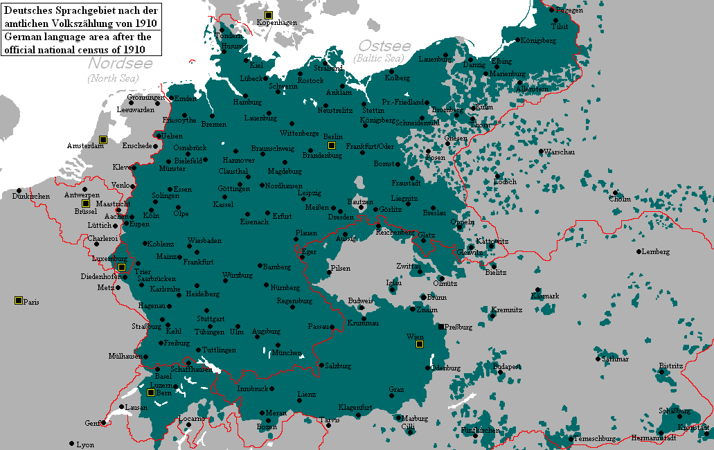 German language around 1910. This image is unreferenced. The blue colour apparently denotes areas, where at least 50% of the population would speak German language. The inset claims it is from the "official national census of 1910", presumably the 1910 census in the German Empire. But it is not clear what relation this map is supposed to have to the census data, as most of its scope concerns territories which were not part of the German Empire. Presumably the "1910 census" claim is just pulled from thin air to avoid charges of "unreferenced". Until a decent reference is shown for this map, it should not be used in Wikipedia articles. Historical maps that could in principle be used as reference: (1881) , (1894), (1906), (1910). Here is a comparable map which claims it is derived from on "a map by Dr. V. Schmidt and Dr. J. Metelka". Presumably, this map is derived from a modern (recent) publication which discussed the 1910 census data. In this case, the map must be attributed to this publication, not to the "1910 census".